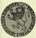 Bulgarian Revolutionary Committee stamp, 1870